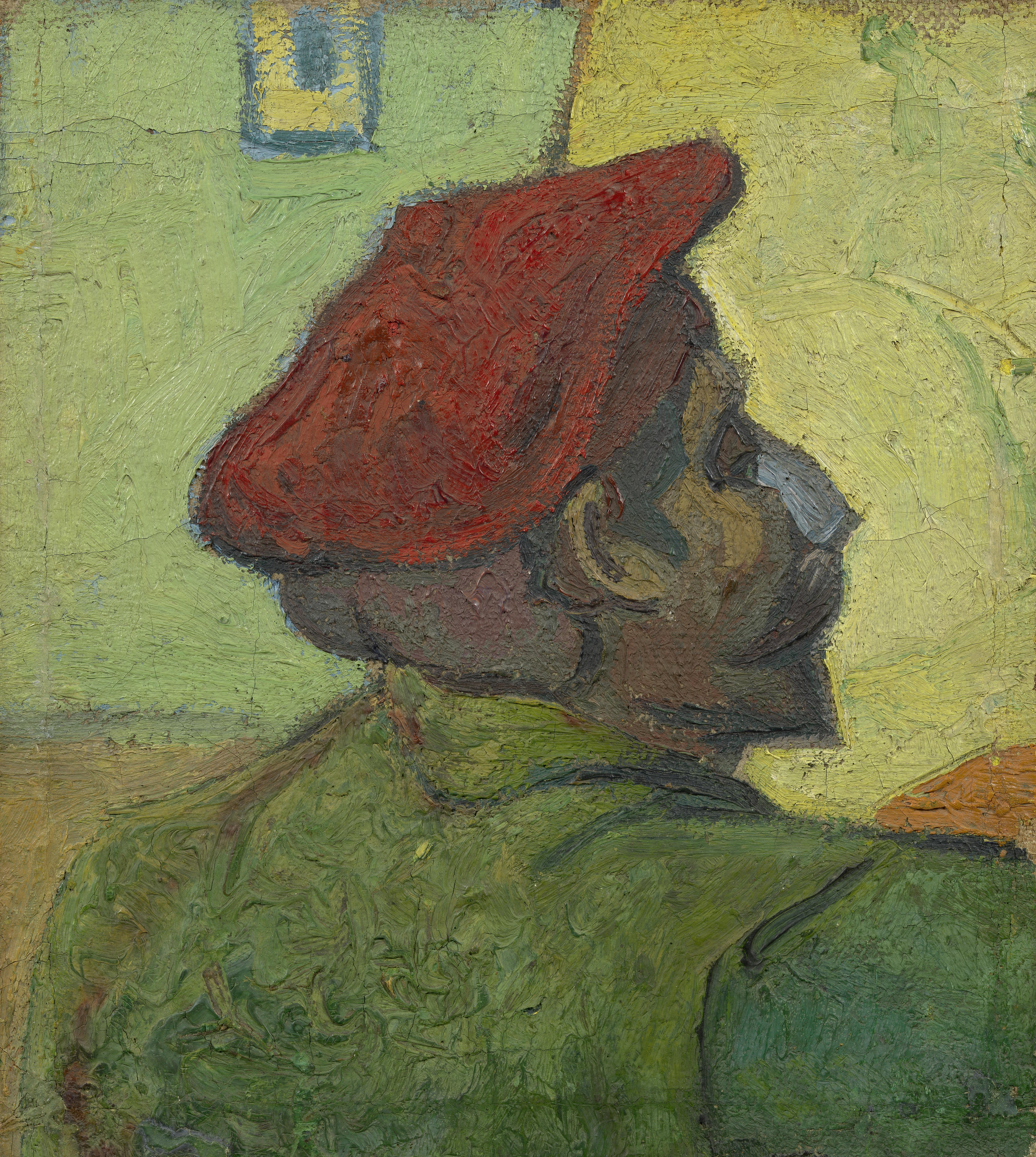 Vincent van Gogh, portrait of Paul Gauguin (Man in a Red Beret)